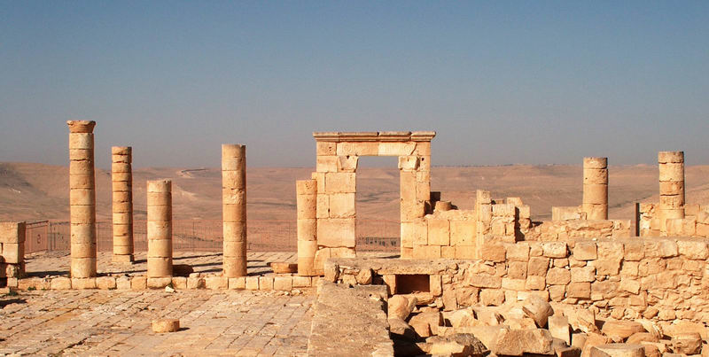 Avdat: view from top of Tell Avdat to the Negev Photo by Uri Juda